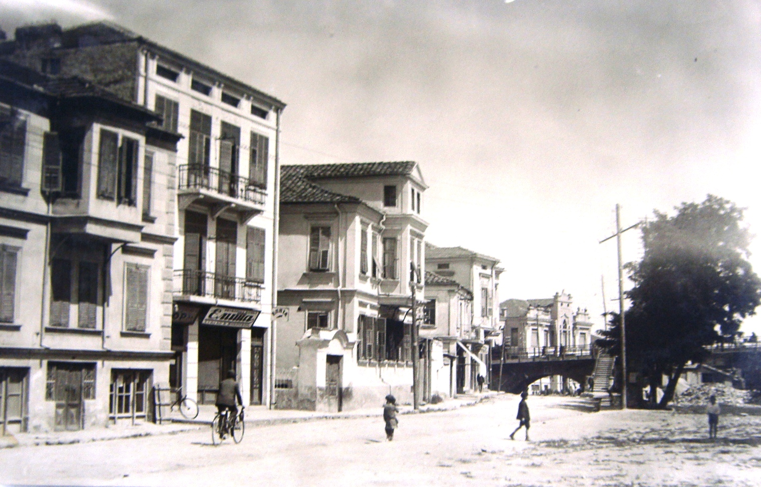 Historical images of Skopje: Part of Skopje, near the Stone Bridge. This media file is produced by Wikipedian in Residence in Category:Wikipedian in Residence at DARM in 2016.